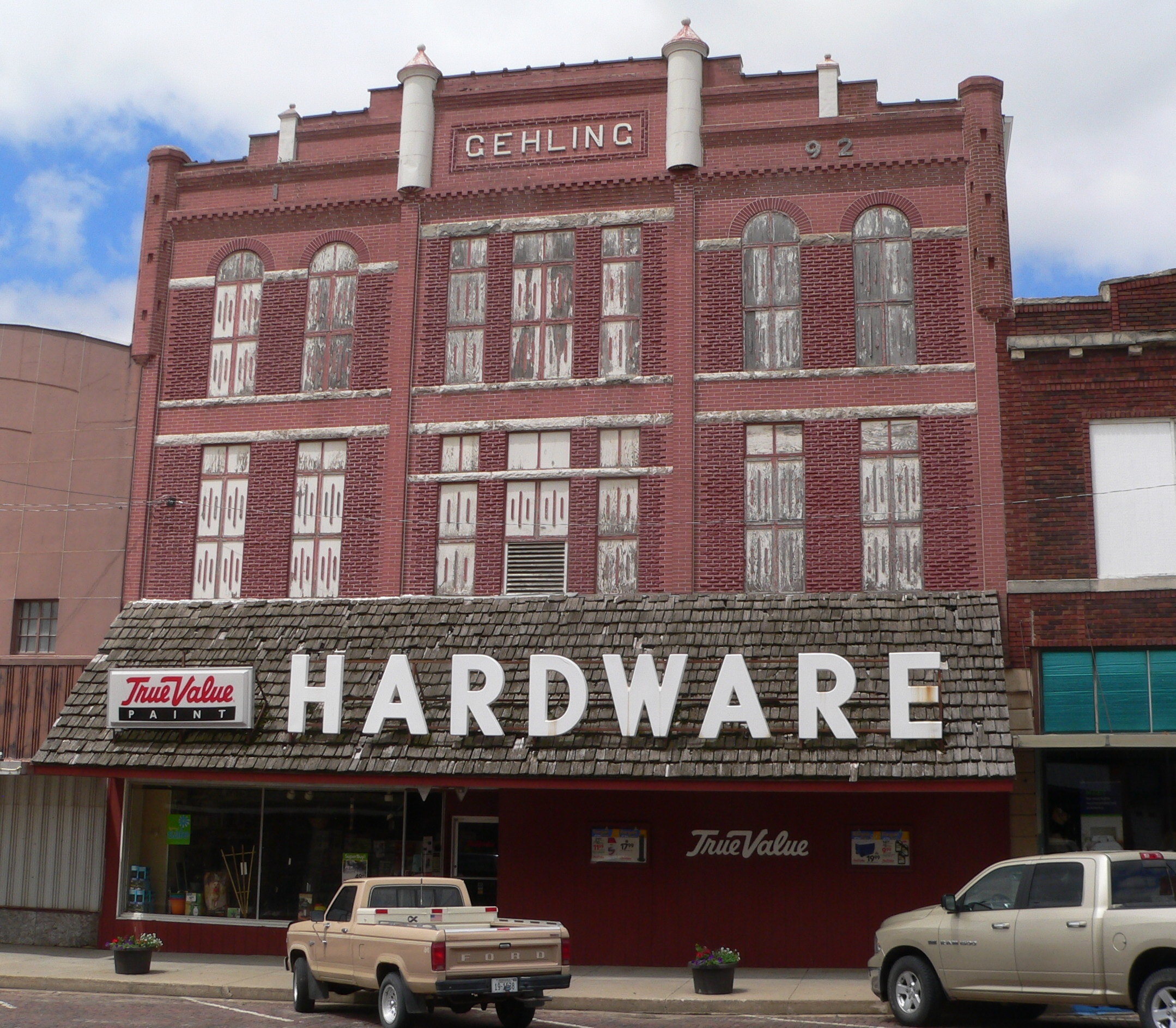 Gehling's Theatre, now a True Value hardware store, at 1519 Stone Street in Falls City, Nebraska; seen from the east, across Stone.